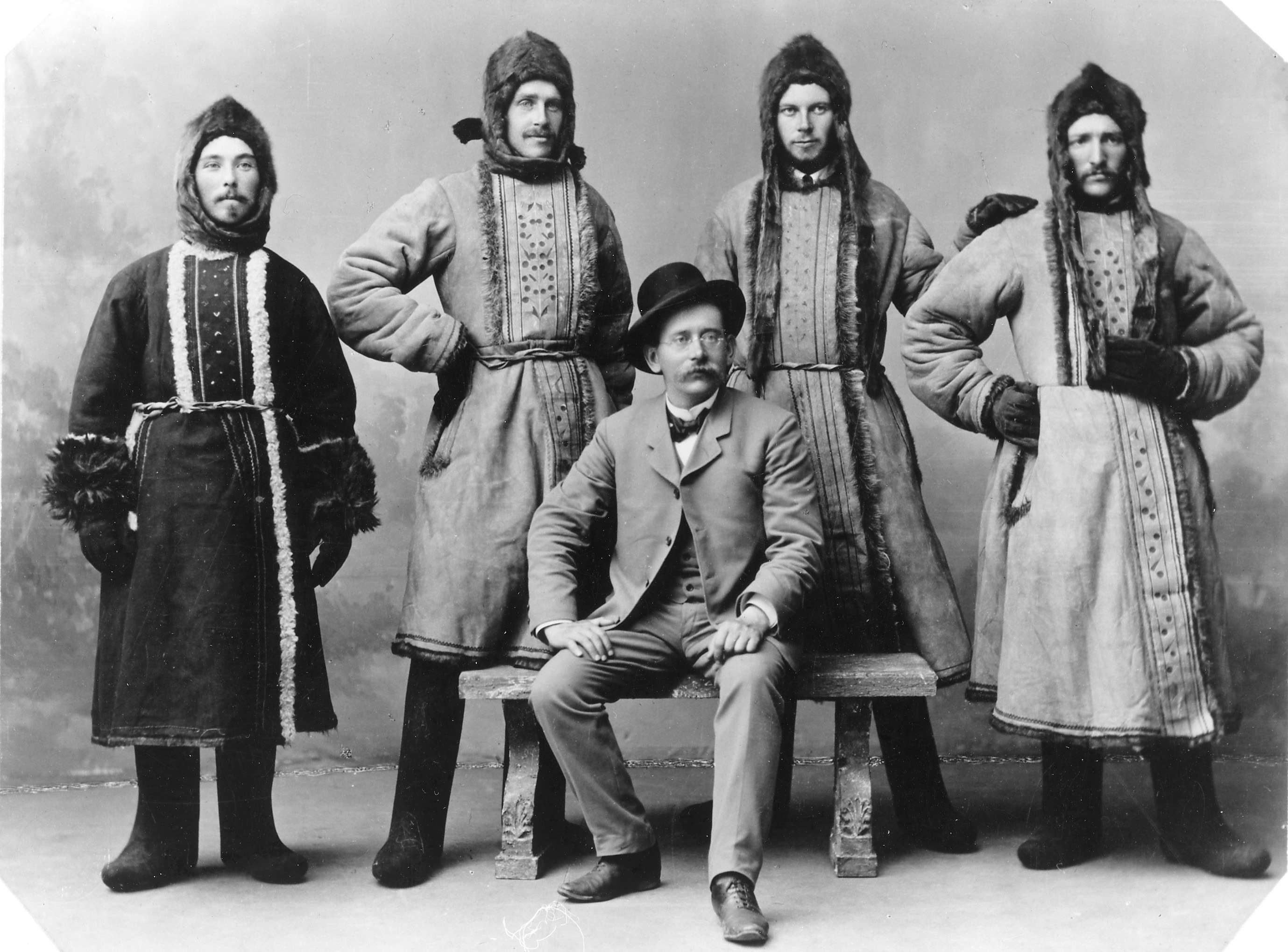 The participants at Matoschkin Sack at The Norwegian Aurora Polaris Expedition 1902-1903. Kristian Birkeland sitting in front. He was not present at the observation station.